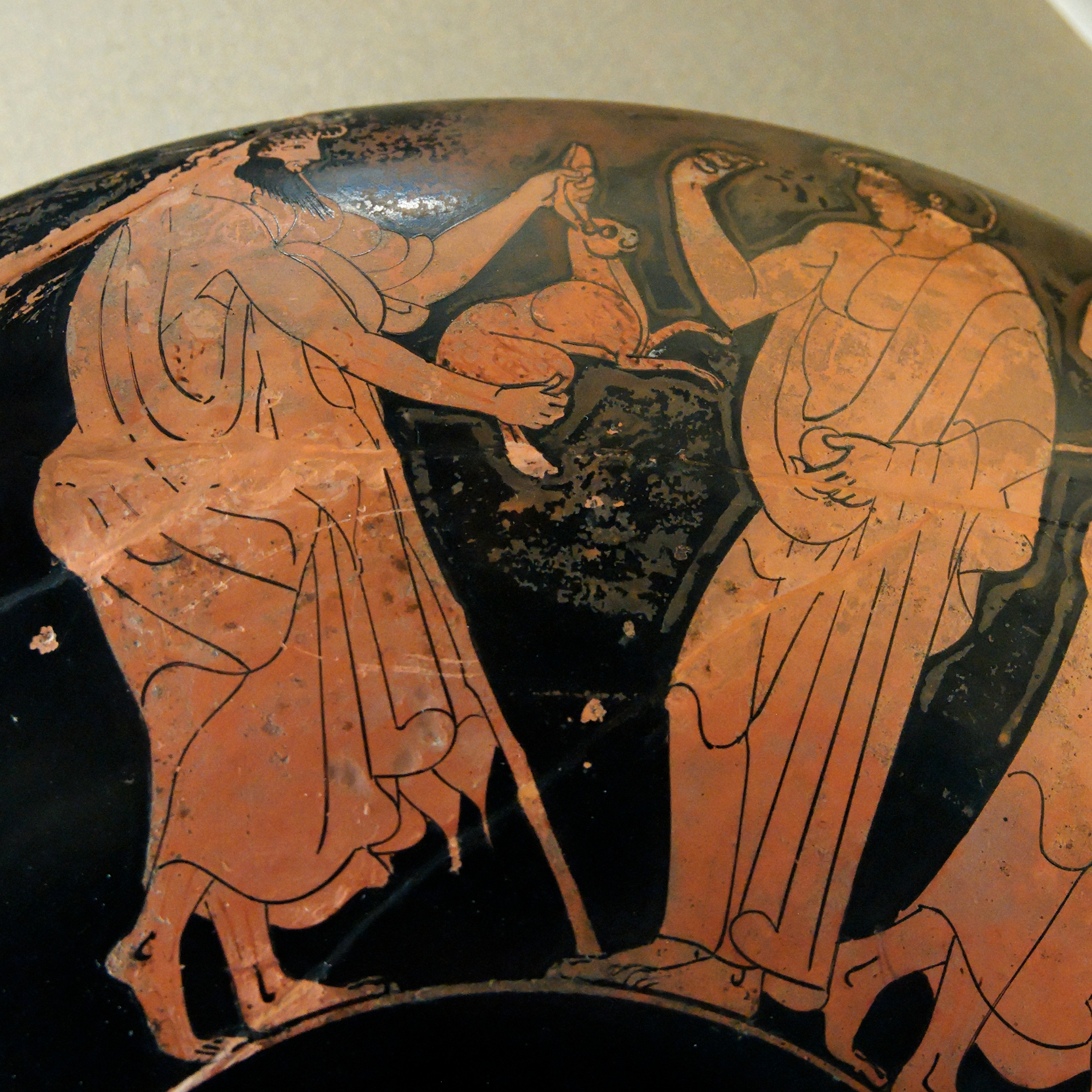 A bearded man gives a hare, a popular pederastic gift, to a boy. Detail of the exterior of an Attic red-figure kylix, ca. 480 BC. From Vulci.